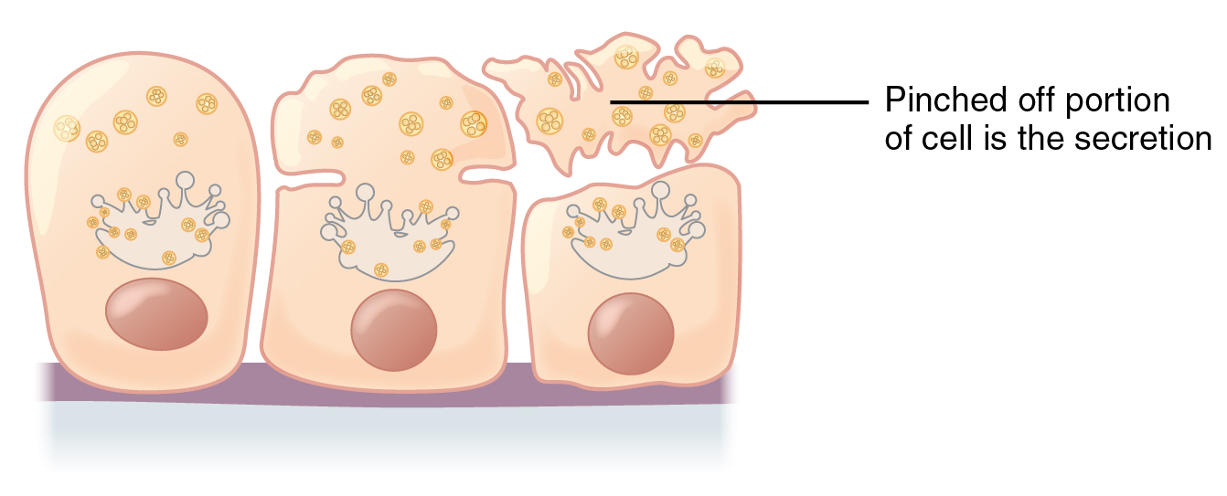 Based off